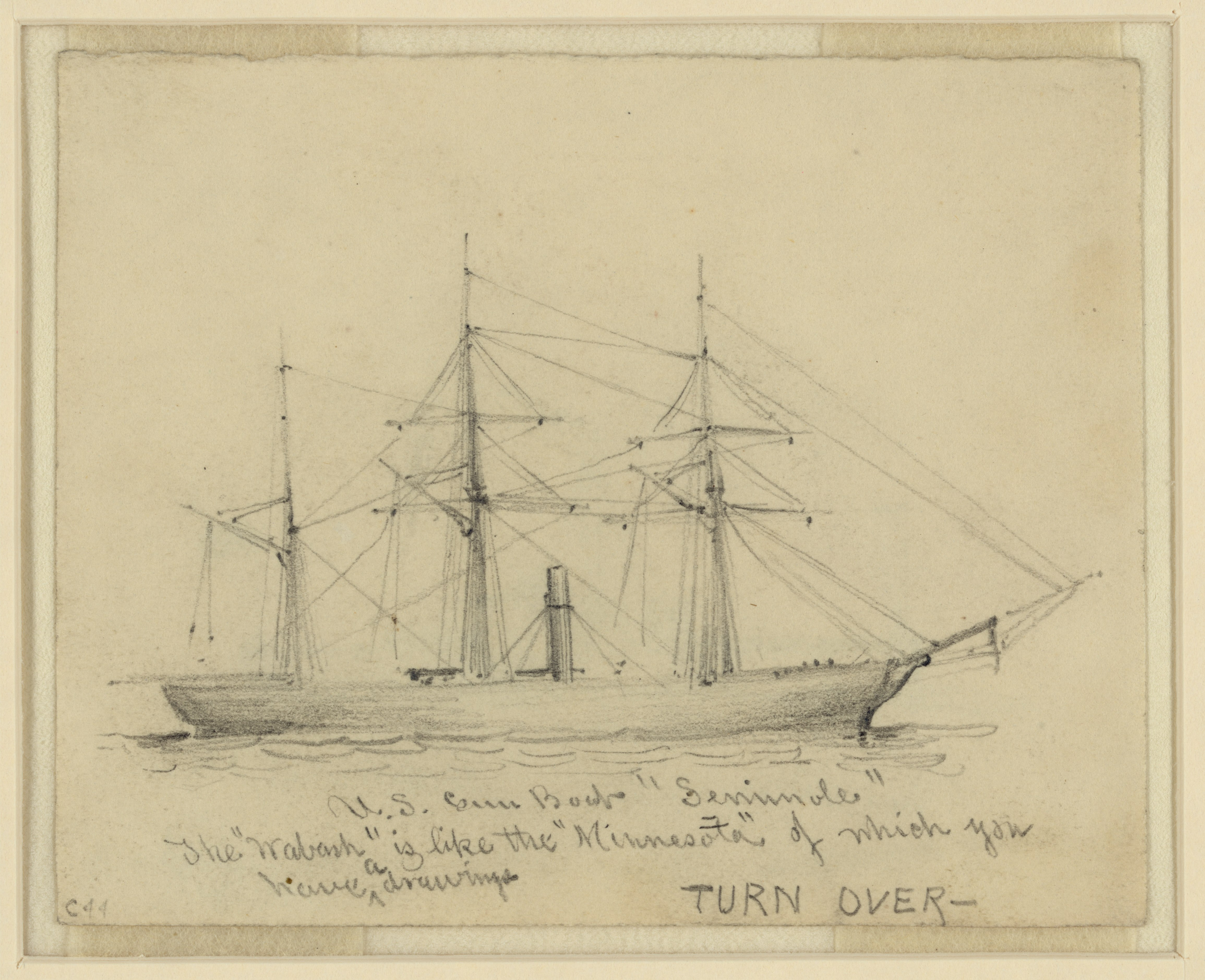 Title: U.S. Gun Boat "Seminole" Abstract/medium: 1 drawing on cream paper : pencil ; 8.3 x 10.4 cm. (sheet).